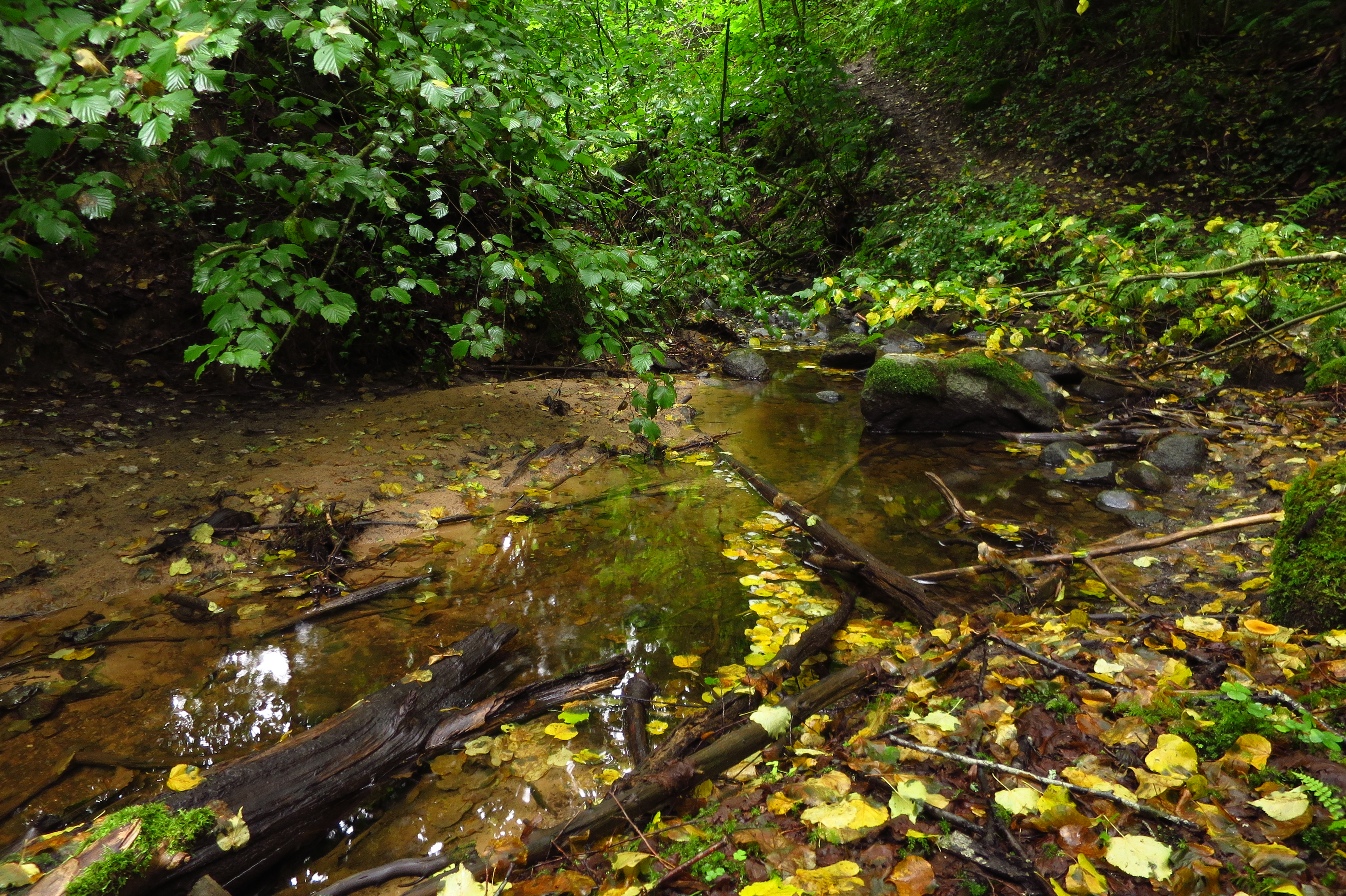 Peeli River in Paganamaa Nature Park.